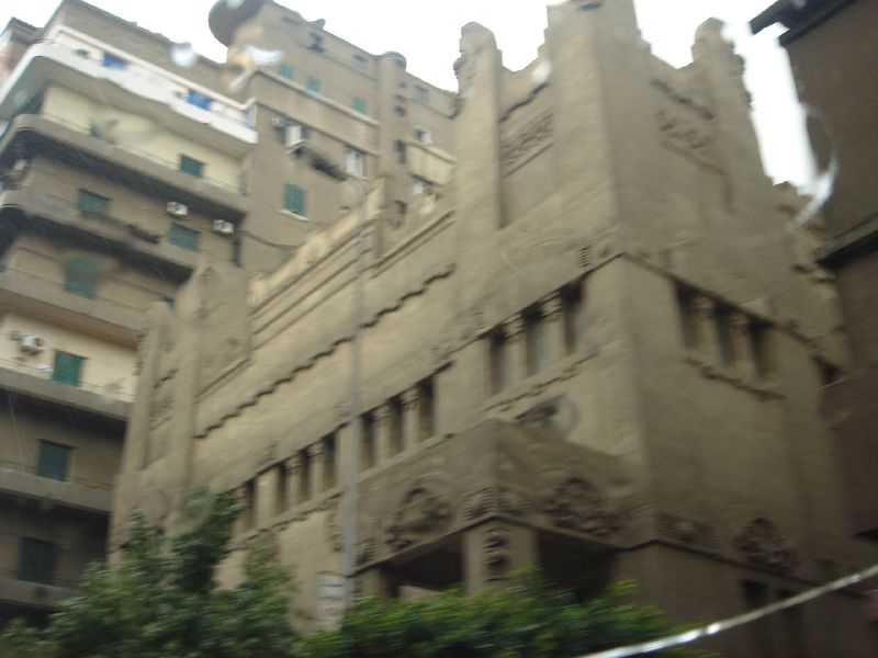 Sha'ar Hashamayim Synagogue, also known as the Adly Street Synagogue, located in Cairo, Egypt.